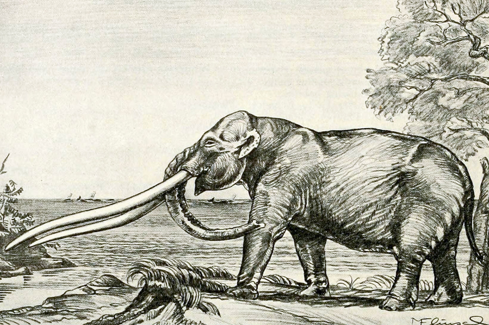 Anancus arvernensis.